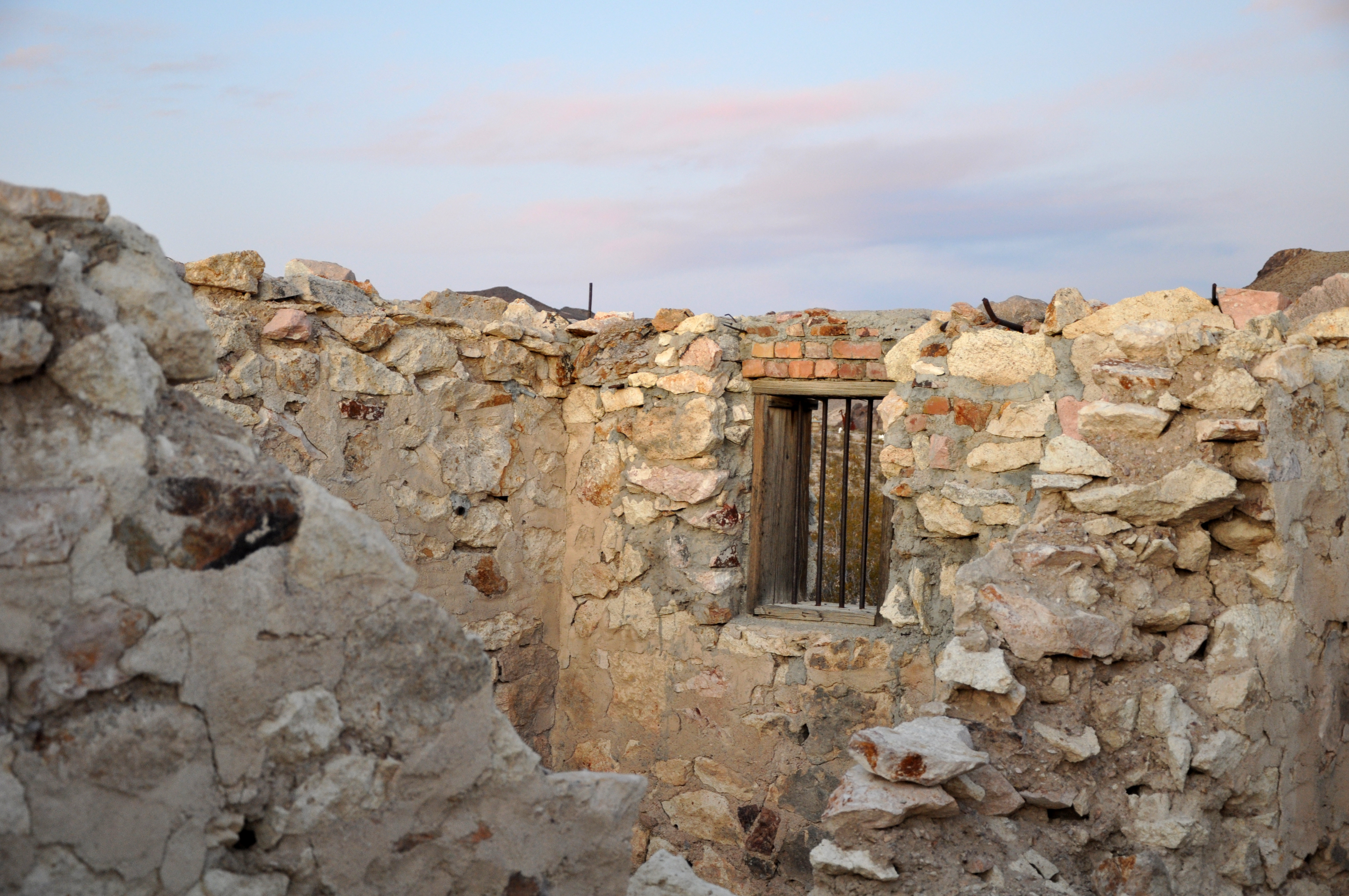 Inside Bullfrog Jail in the ghost town of Bullfrog, Nevada, in the United States. View is to the northeast just before sunset.